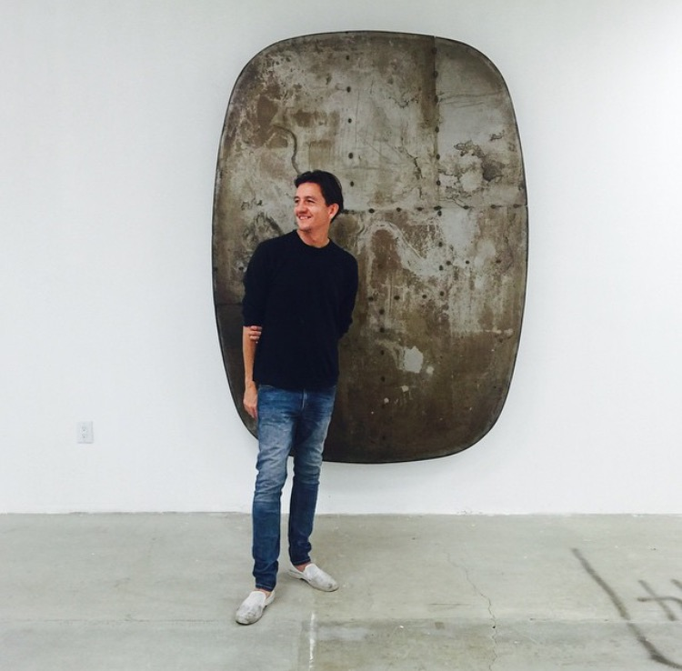 Anthony James in his Los Angeles studio, 2015